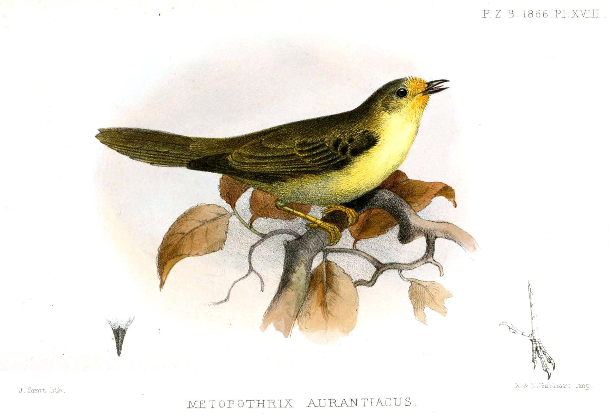 Orange-fronted Plushcrown, adult with bill from dorsal and detail of foot